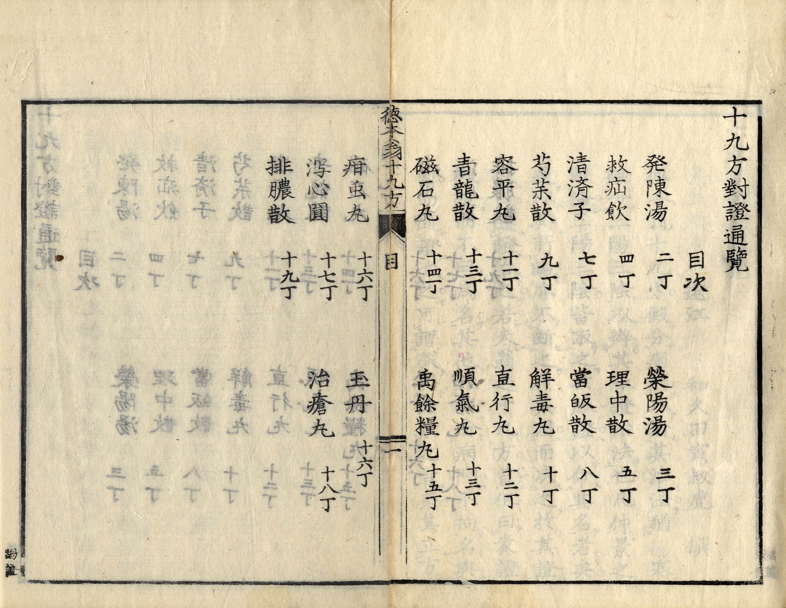 Contents of the 'Nineteen prescriptions of the old master Tokuhon' (Tokuhon-ō jūkyū hō). Printed in Osaka, 1804. Collection W. Michel (Fukuoka)